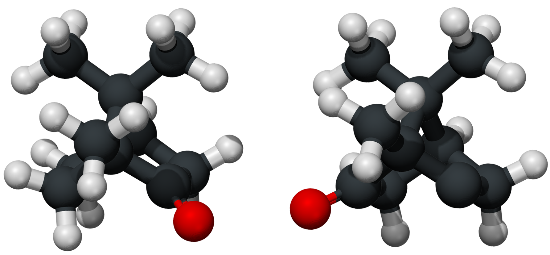 3D model of a pair of (R) and (S)-camphor molecules, respectively. X-ray diffraction info from: Low-Temperature Crystal Structure of S-camphor Solved from Powder Synchrotron X-ray Diffraction Data by Simulated Annealing (Journal of Solid State Chemistry Volume 163, Issue 1, January 2002, Pages 253–258).